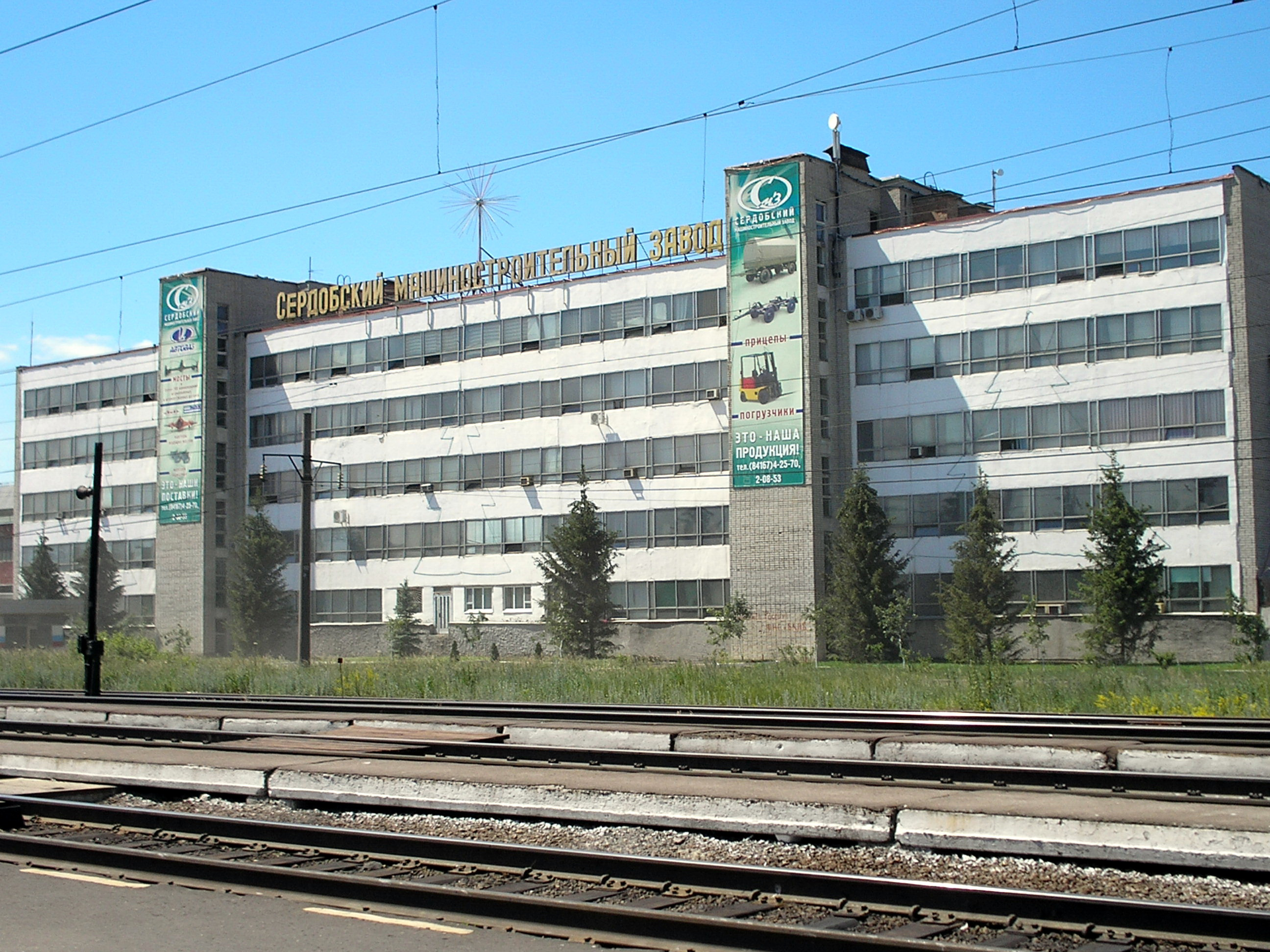 Serdobsky machine-building plant